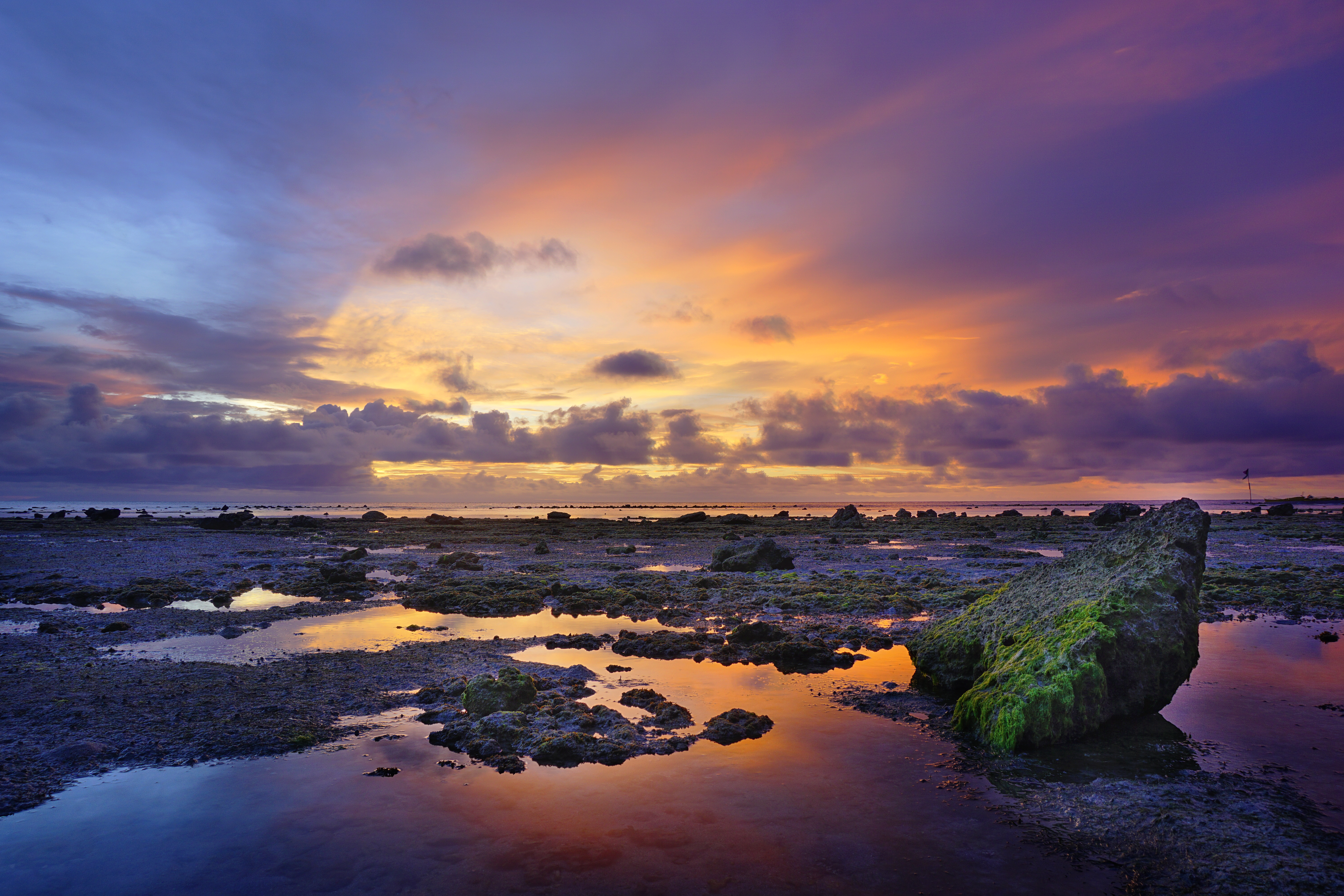 The unusual colors of sunset at the Initao - Libertad protected landscape and seascape. This protected area in Misamis Oriental houses a wide variety of wildlife and environmental treasures.